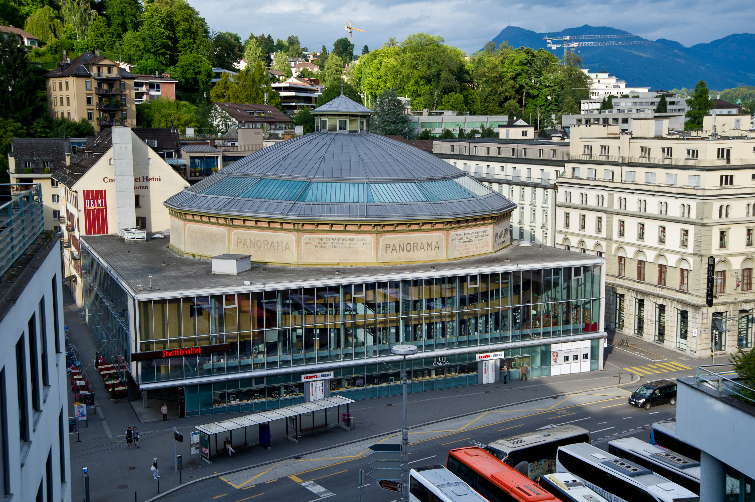 Outside view of the Bourbaki-Panorama museum/cultural centre, Lucerne, Switzerland. Bourbaki-Panorama, Luzern, Schweiz.